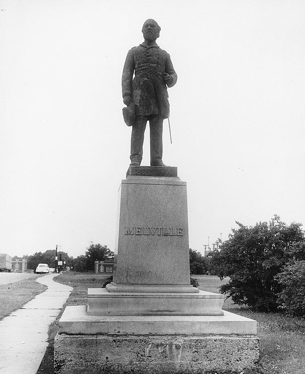 "Chief Engineer George W. Melville, USN, Statue in Navy Park, Philadelphia Naval Base, Pennsylvania." Statue by Samuel Murray (1923).